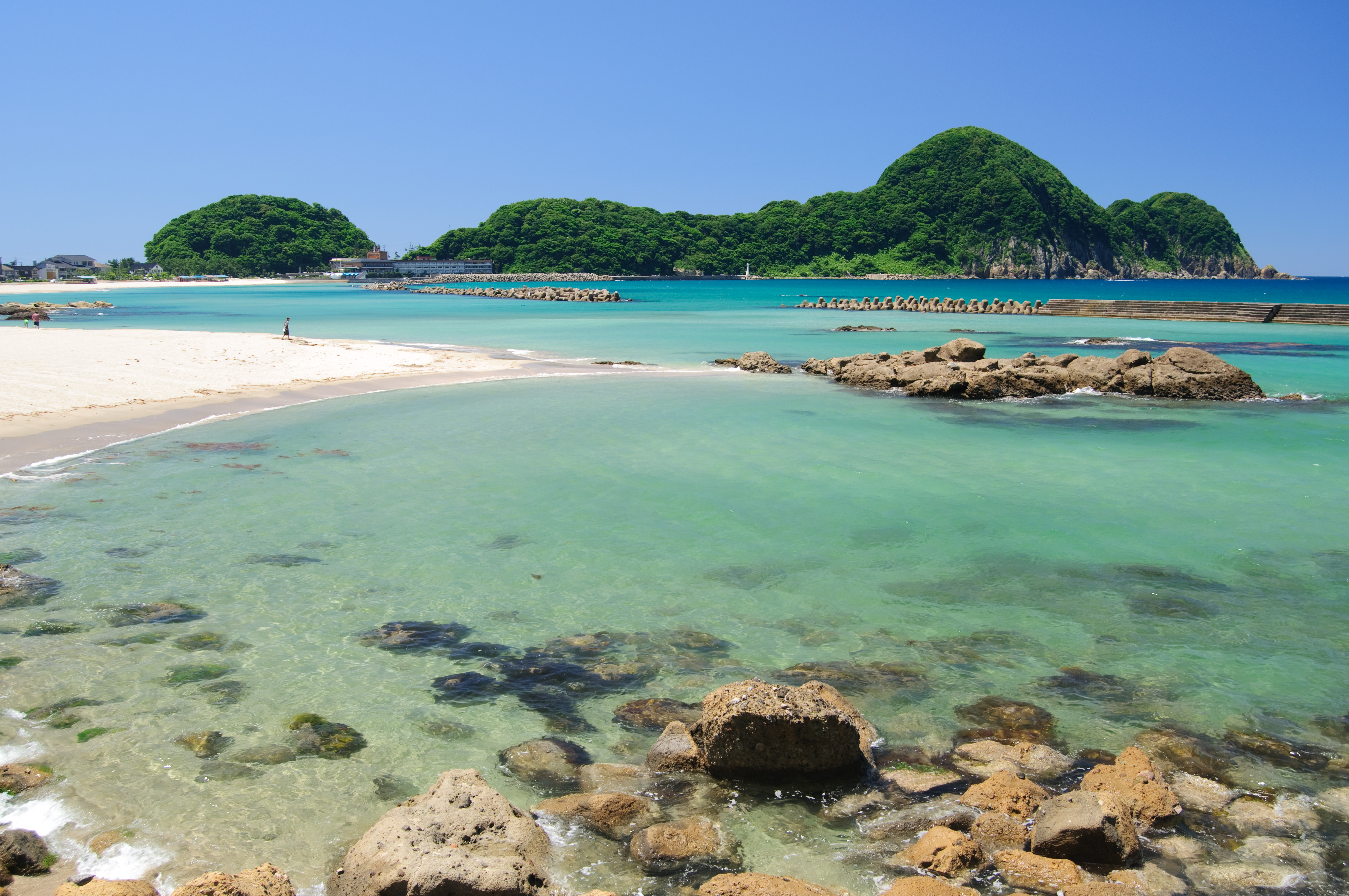 Takeno hama in Takeno-cho, Toyooka, Hyogo Prefecture, Japan.